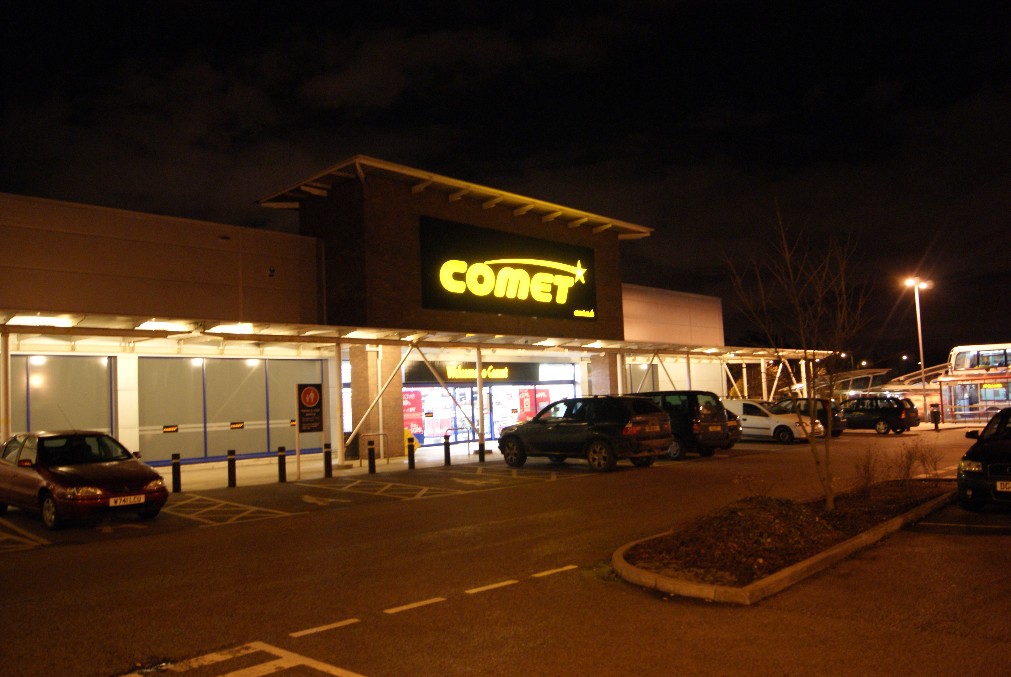 Comet at the Moor Allerton District Centre, Moor Allerton, Leeds. Taken on the evening of Wednesday the 10th of February 2010.